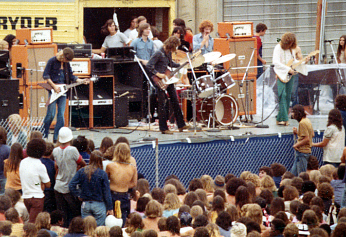 Wishbone Ash at outdoor rock festival, Charlotte, NC 1972.